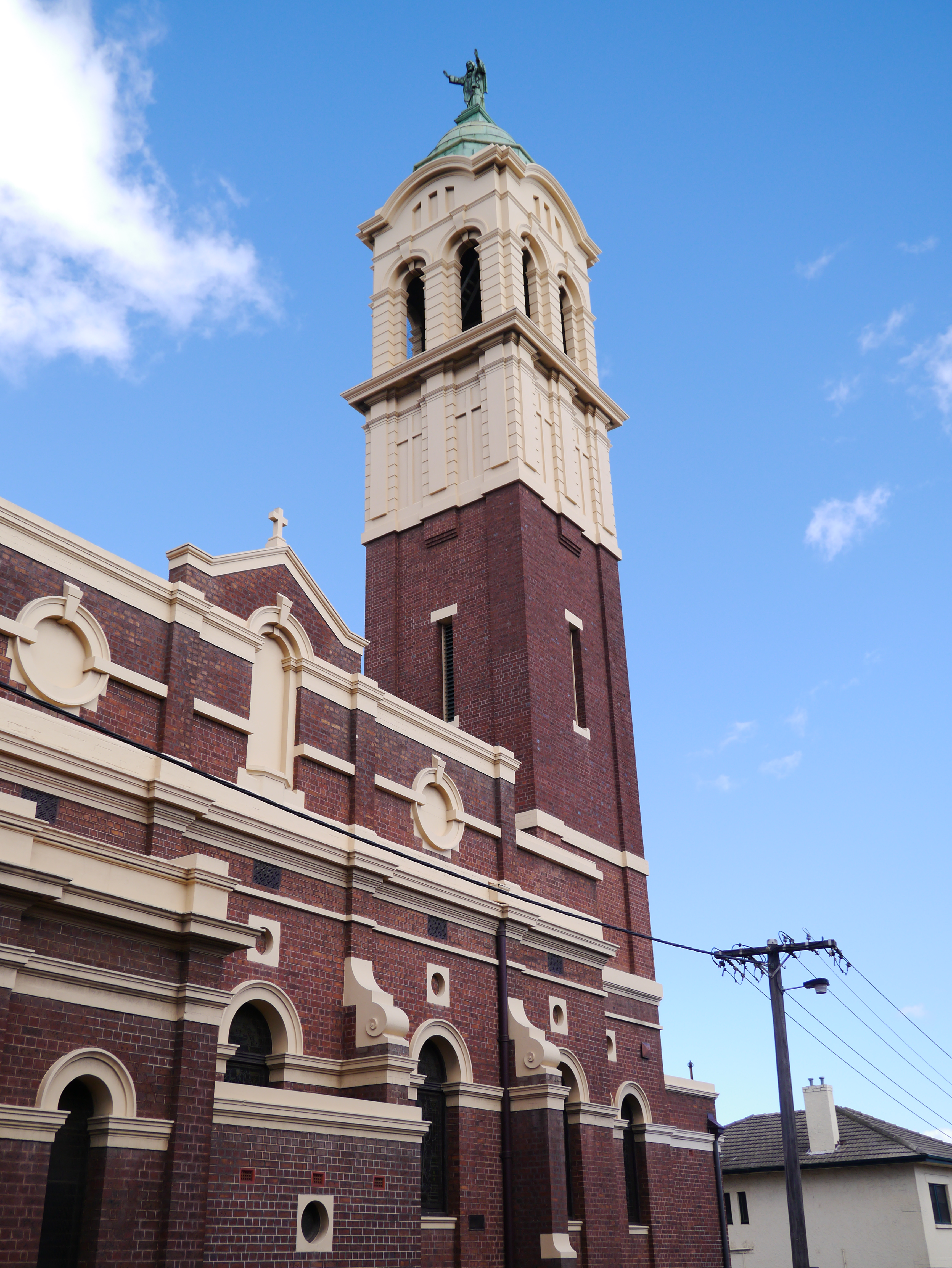 sacred heart church st kilda bell tower